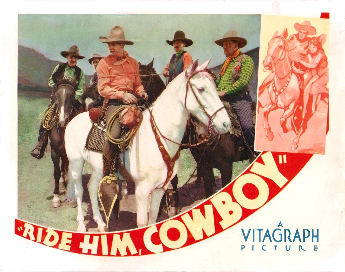 Lobby card for the American western film Ride Him, Cowboy (1932). The item has no copyright markings on it as can be seen in the links above.